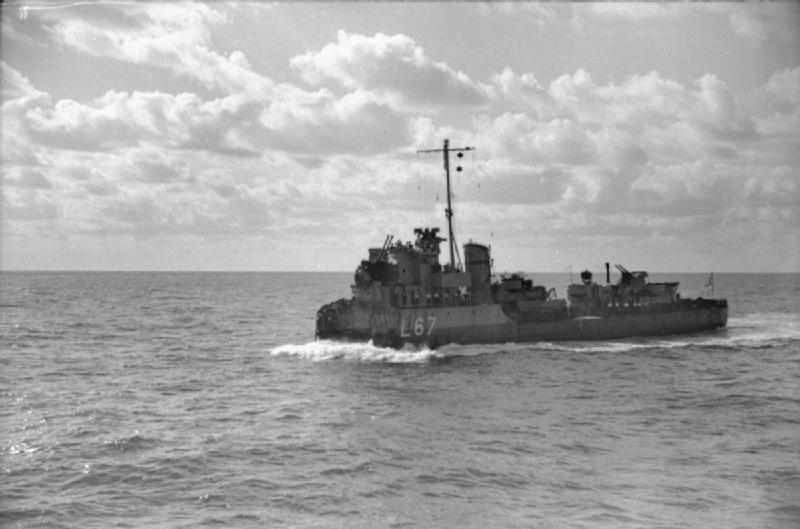 The Greek Navy during the Second World War HHMS ADRIAS, minus her bows, making three knots towards Alexandria. She had her bows blown off by a mine in the Aegean, she came in under her own steam at a speed of three knots having travelled in this condition for over five hundred miles.